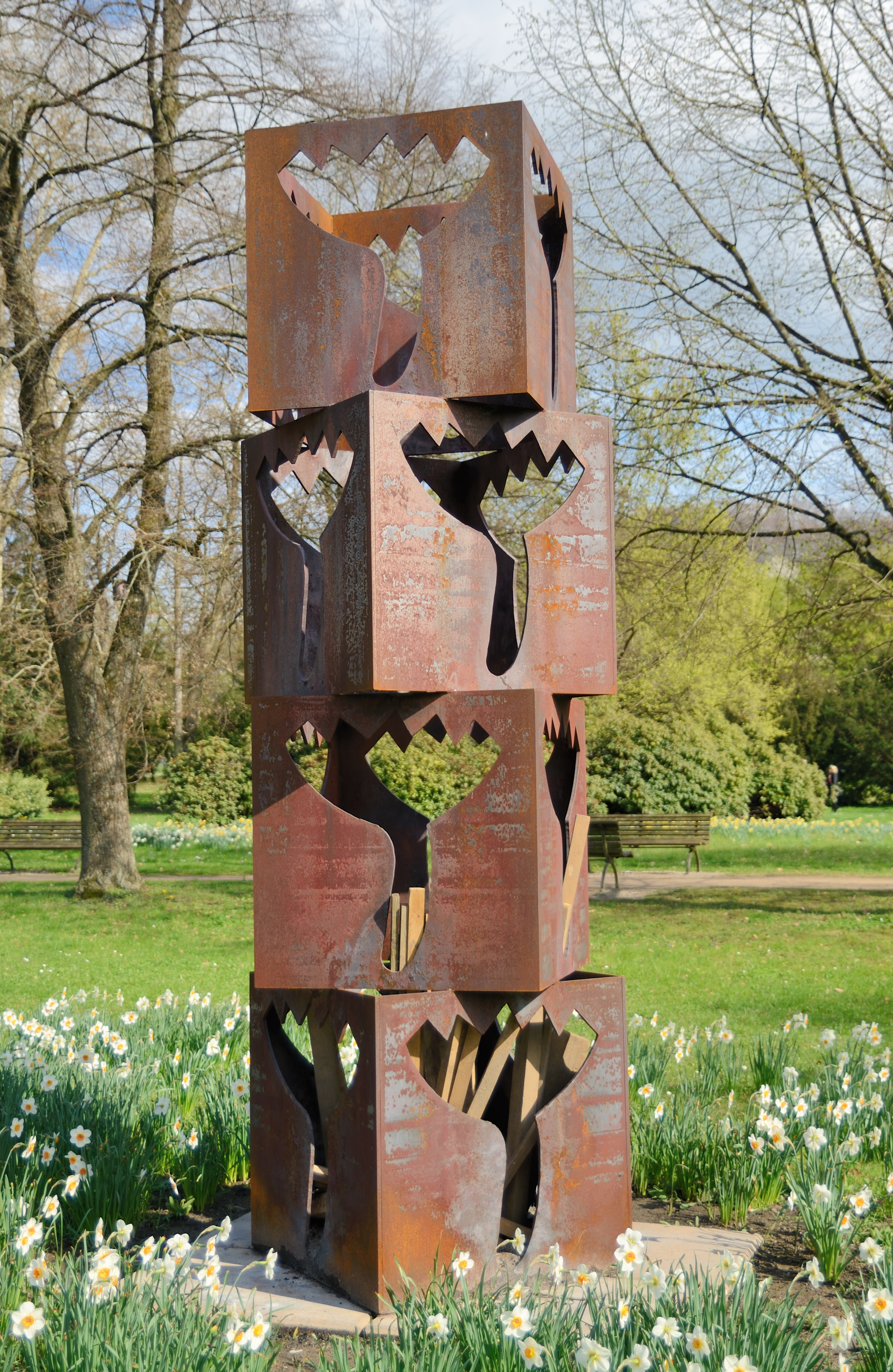 Lörrach: Sculpture at Grüttpark, „Feuer-Tulpen-Turm“ (Fire tulips tower) from Max Meinrad Geiger